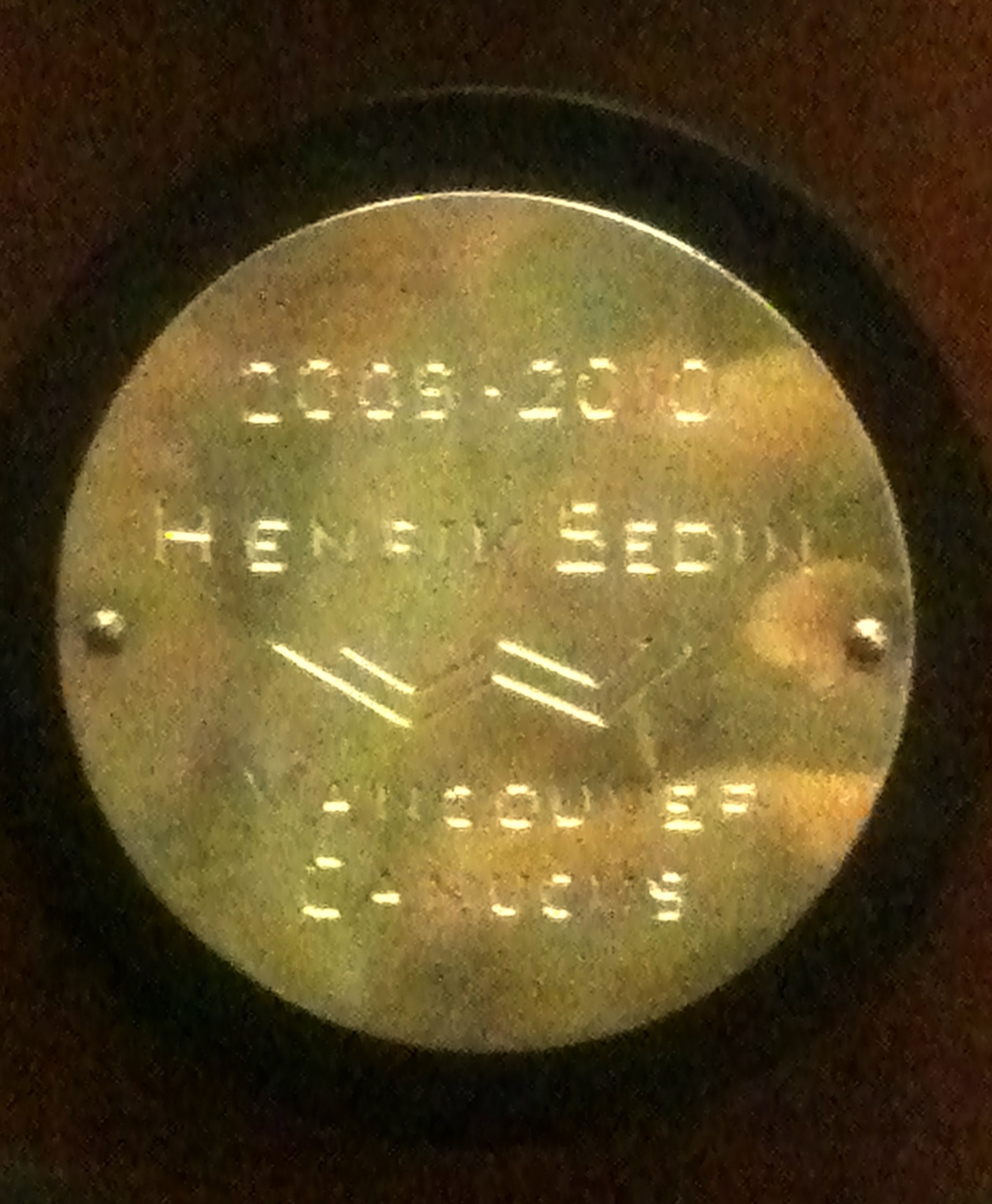 Henrik Sedin's plaque on the Art Ross Trophy, awarded to the NHL's leading point-scorer.